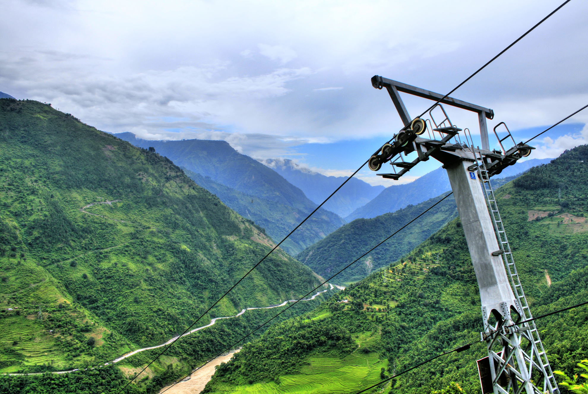 Manakamana Temple (Nepal) is well known as the wish fulfilling goddess. There is a Cable-Car (Gondola lift) to get to the temple. This was taken from the hike route that follows the cable car path.